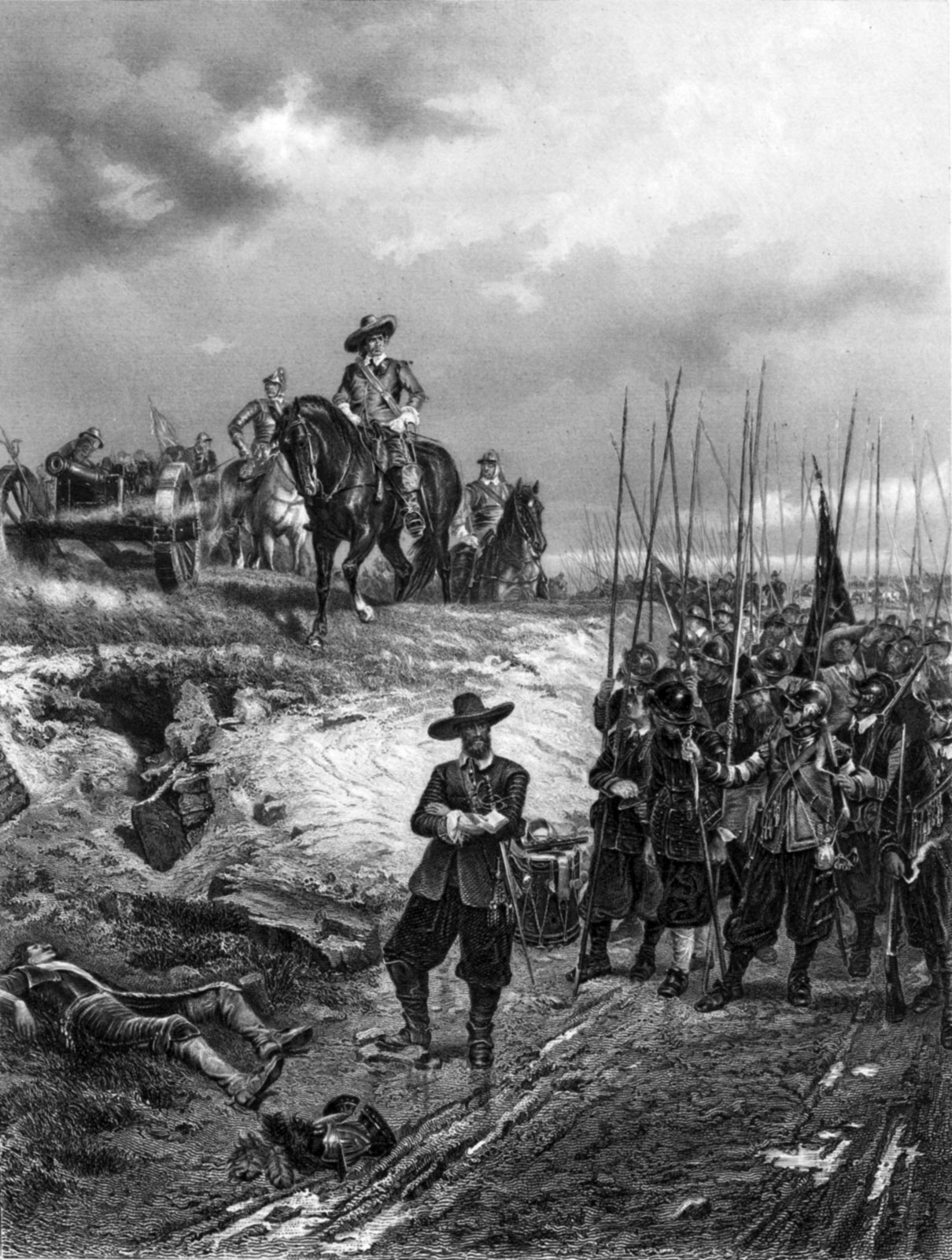 Oliver Cromwell (1599-1658) at the Battle of Marston Moor, 2 July 1644.'